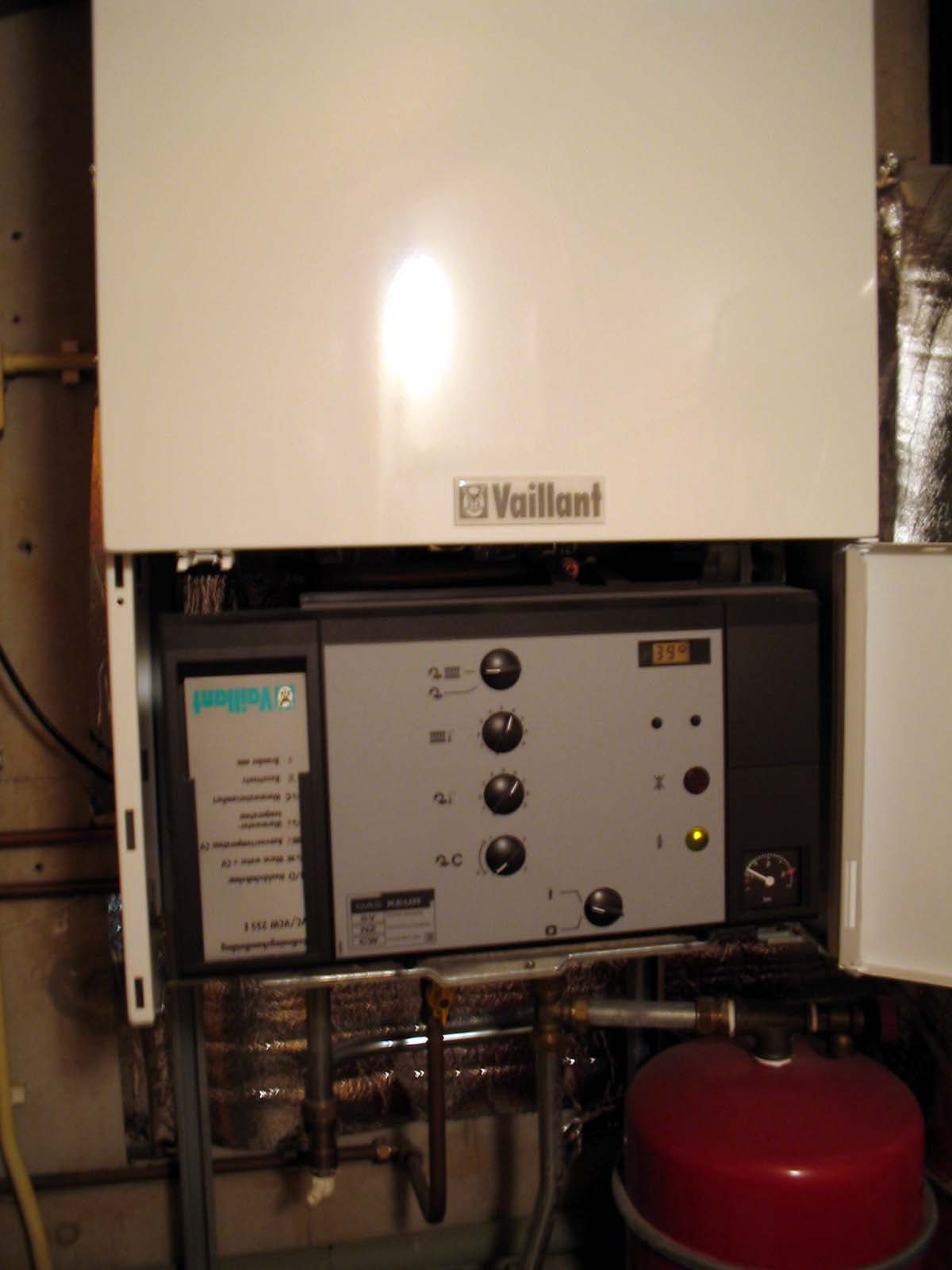 Central heating (dutch: CV-ketel) The factual accuracy of this description or the file name is disputed.Reason: this is no HR condensing boiler